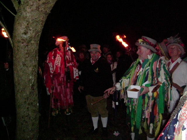 Twelfth Night Tradition. This is the orchard of John Batcheldor Cider (JB's) in Maplehurst West Sussex. Here the Broardwood Morris Men are enacting the ancient West Country tradition of Wassailing the Apple trees on twelfth night to ensure a good harvest. The good burgers of West Sussex have been Wassailing these trees almost as far back as the dawn of the millennium! A wassail consists of beating the trees to scare away demons, anointing the ground around the trees with cider, Hanging cider soaked toast in the tree so the robins who eat it can carry away any residual evil, reciting a verse and finally making as much noise as possible with whatever instruments come to hand. You can follow the 2007 festivities starting at 305980